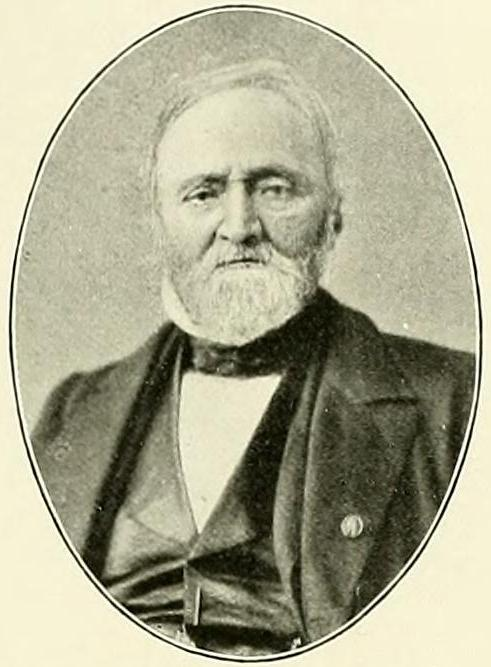 Portrait of the French botanist Pierre Camille Montagne